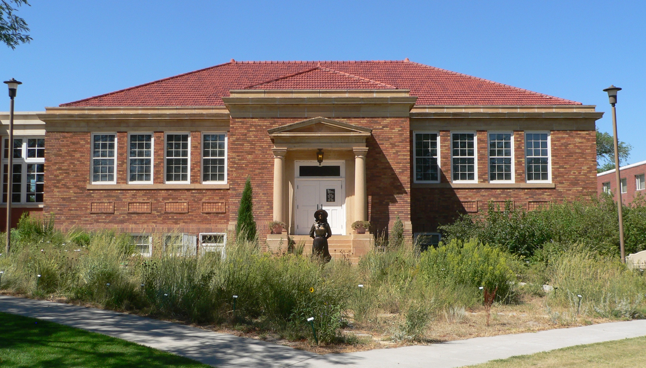 Mari Sandoz High Plains Heritage Center, on the campus of Chadron State College in Chadron, Nebraska; seen from the east. The building was formerly the college's library; the Classical Revival building was constructed in 1929, and is listed in the National Register of Historic Places. In front of the building is a life-sized bronze statue of Mari Sandoz by George Lundeen; the sculpture stands in a small garden of native Nebraska Sandhills grasses and flowers. Attached to the building on the south is the Chicoine Atrium, built in 2002.